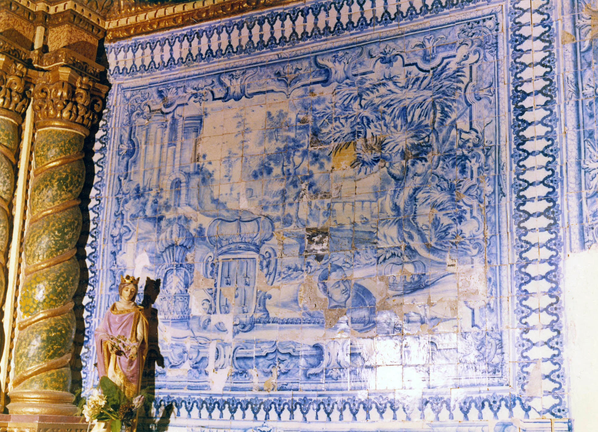 Tile panel inside Navegantes Chapel in Luanda, Angola Photographer: João Miguel dos Santos Simões (1907-1972). Date: 1960-1970.